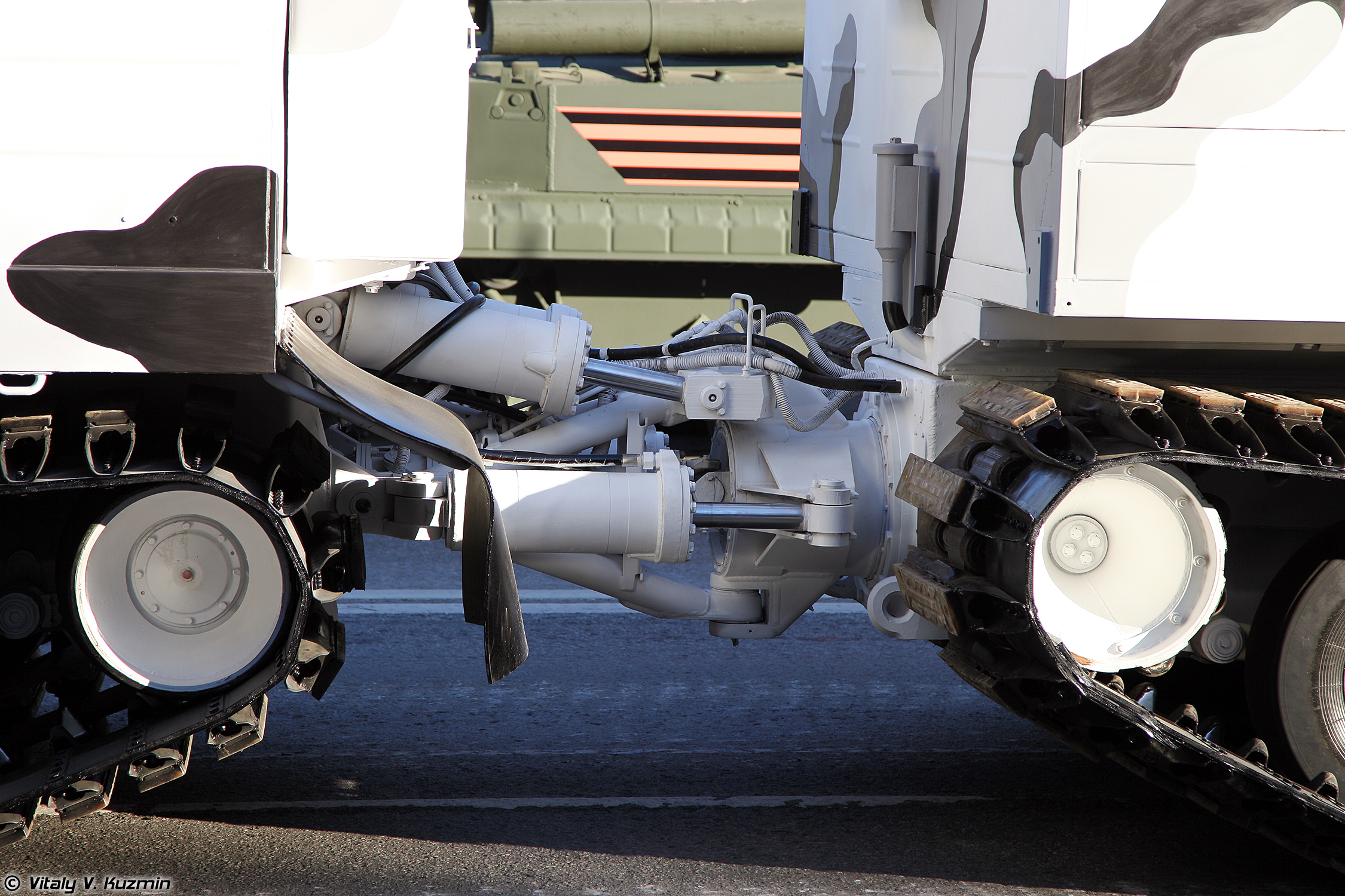 9K331MDT Tor-M2DT air defence system on DT-30PM transporter chassis - Rehearsal of 2017 Moscow Victory Day Parade